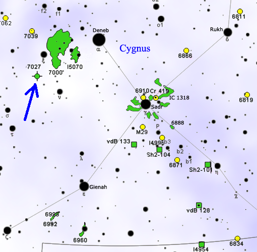 Map of NGC 7027